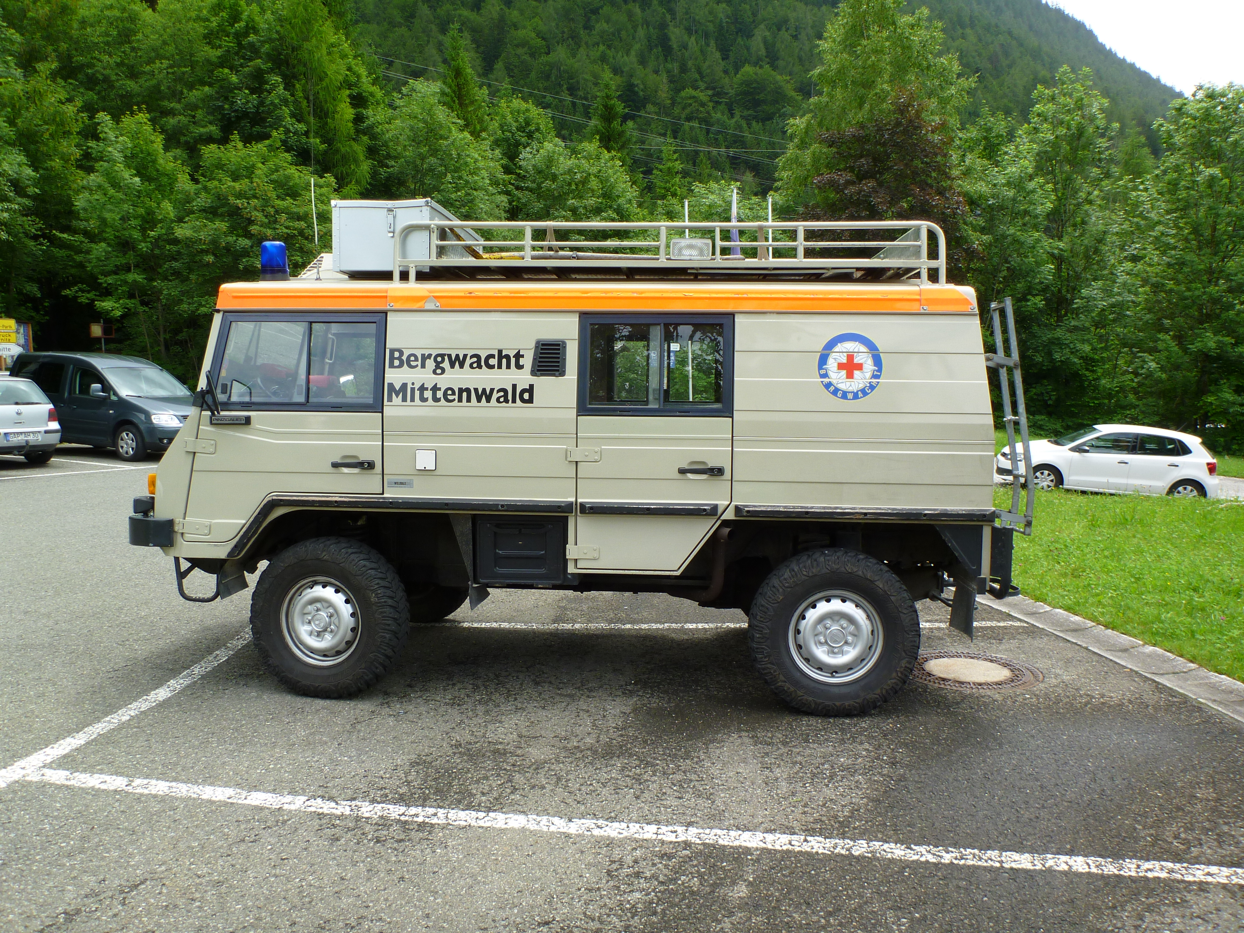 Pinzgauer of the mountain rescue service in Mittenwald